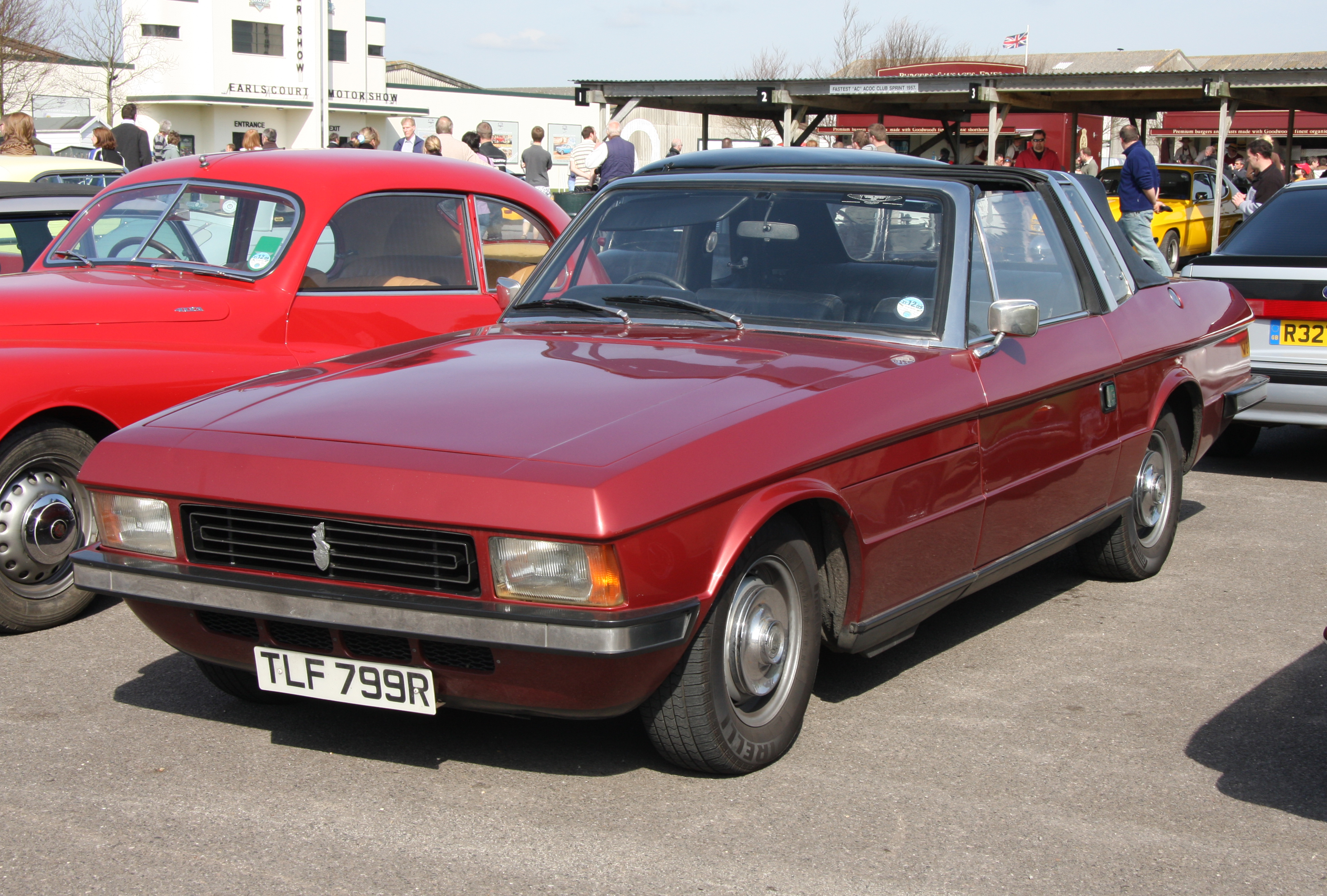 What were they thinking? Is it just me or do you think it looks like a kit car version of a Ford Zephyr?